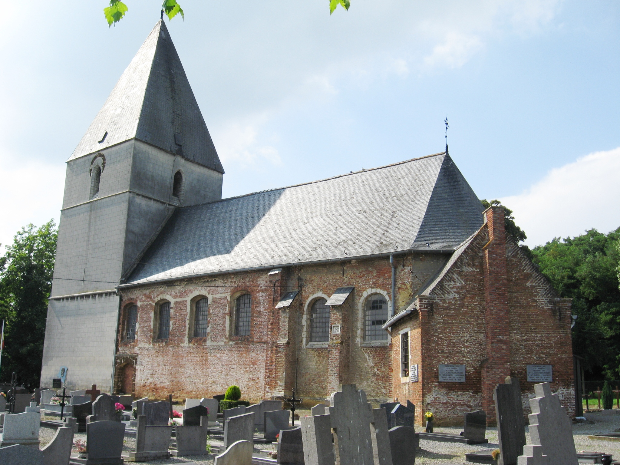 Church of Saint Lawrence in Molenbeek, Molenbeek-Wersbeek, Bekkevoort, Flemish Brabant, Belgium